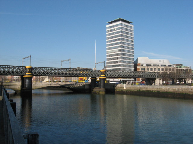 Loop line viaduct, Dublin The Loop Line (or Liffey) viaduct carries the railway from Connolly station (right, north of the river) to Tara Street station (south). Behind is Butt Bridge and Liberty Hall, and the Monument of Light / Spire of Dublin.